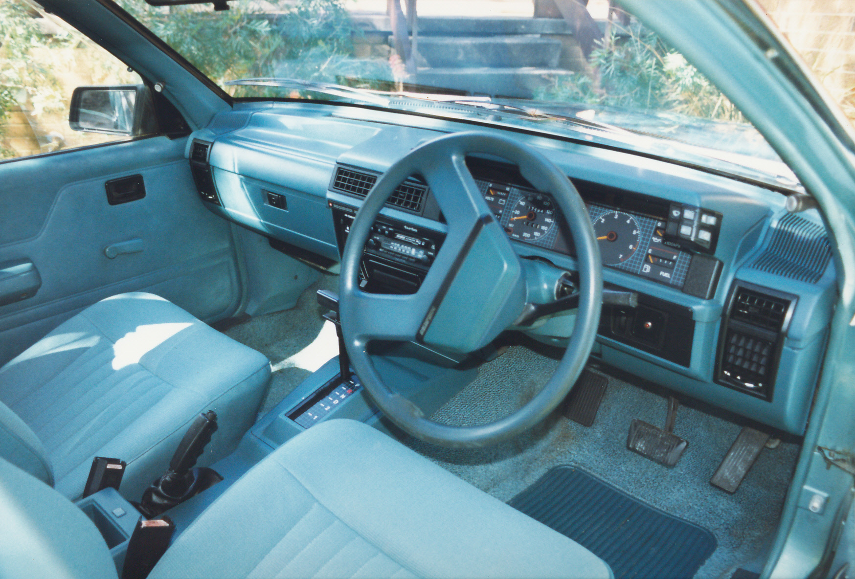 This image is a scan of a 35mm print of the Commodore VL Turbo I bought from the original owner in August 1999